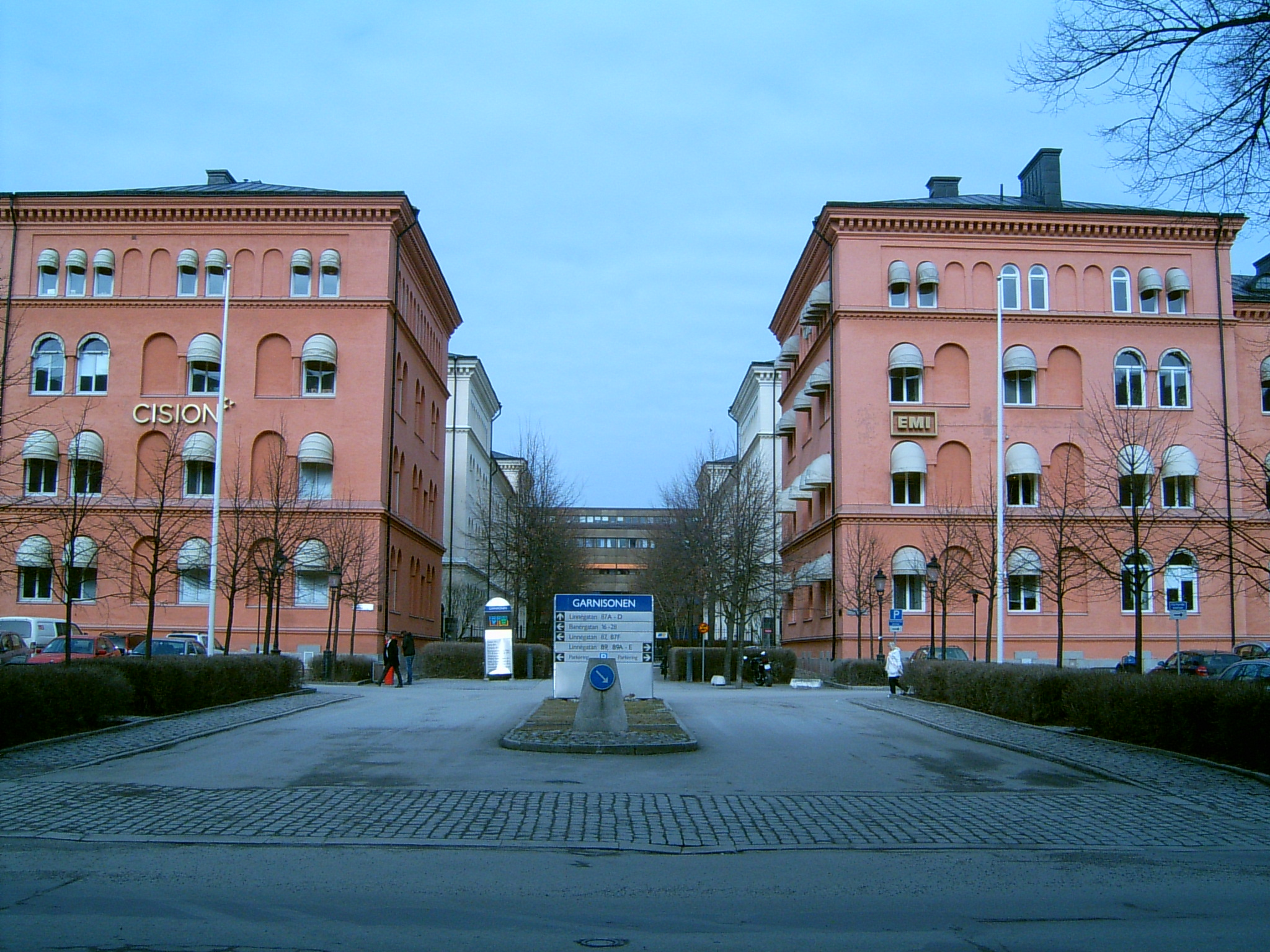 Barracks of Svea livgarde (I 1) and Göta livgarde (I 2) at Linnégatan in Stockholm.